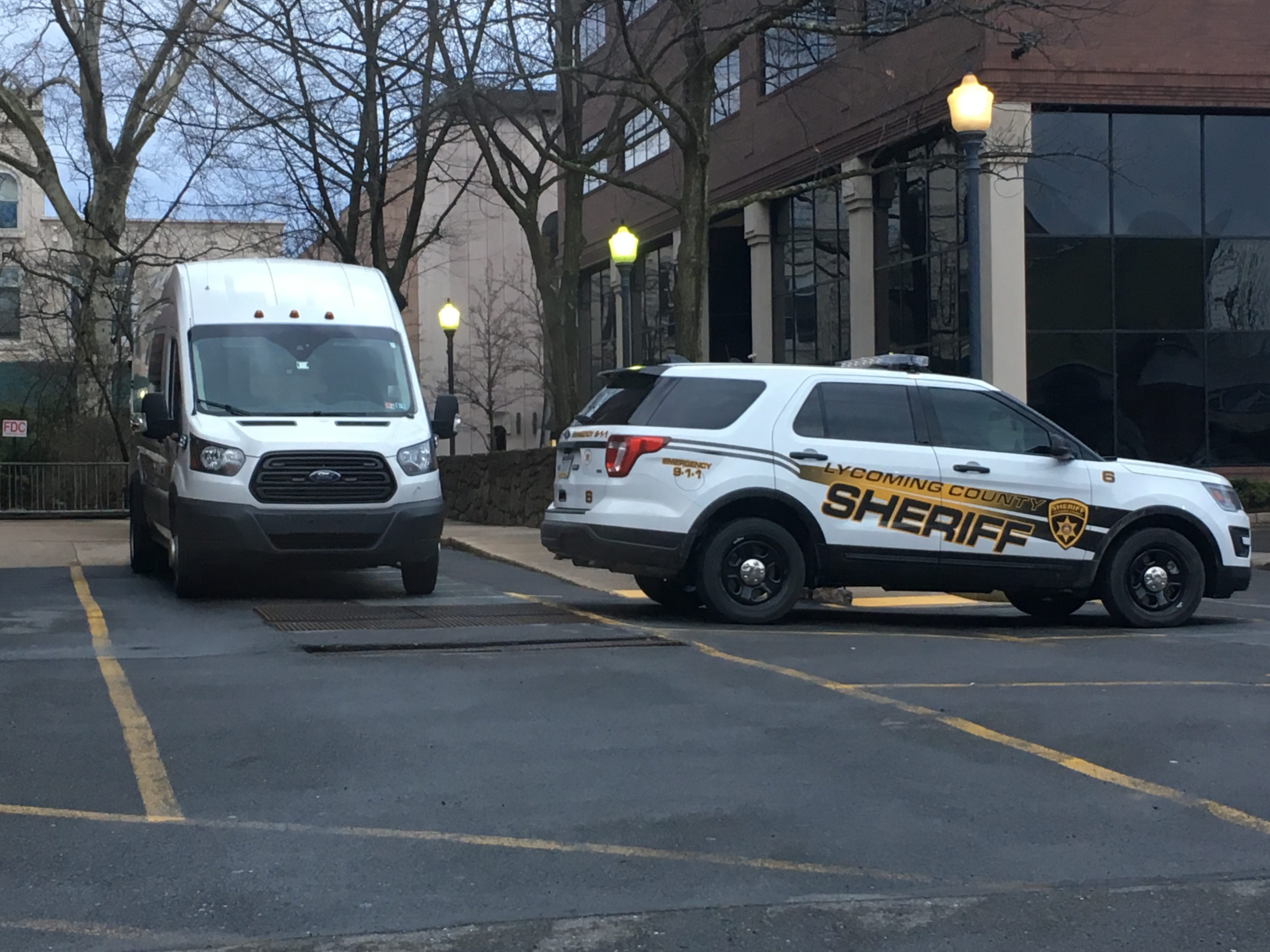 Lycoming County Sheriff’s Office marked Ford Explorer Utility and Ford Prisoner Transporter van.